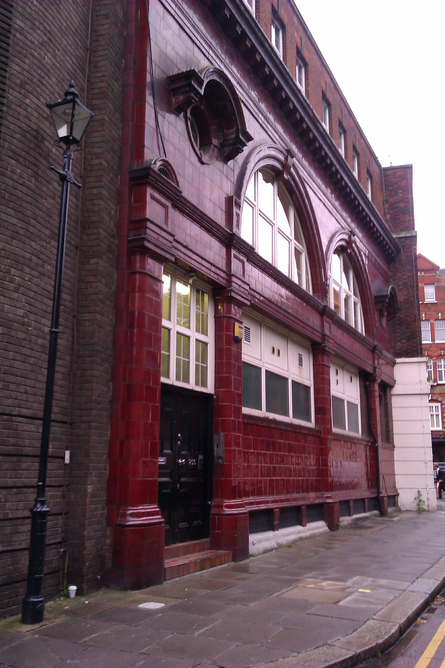 The front entrance to the now disused Brompton Road tube station.